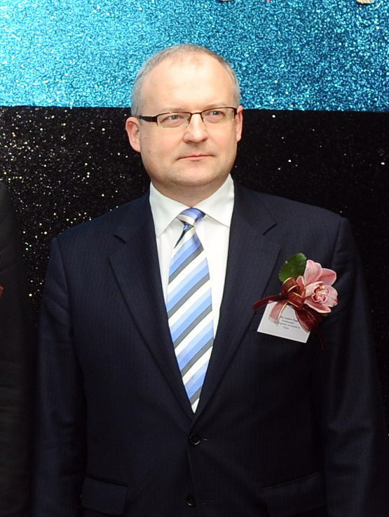 Andres Unga at the opening of the Estonian Honorary Consulate in Hong Kong